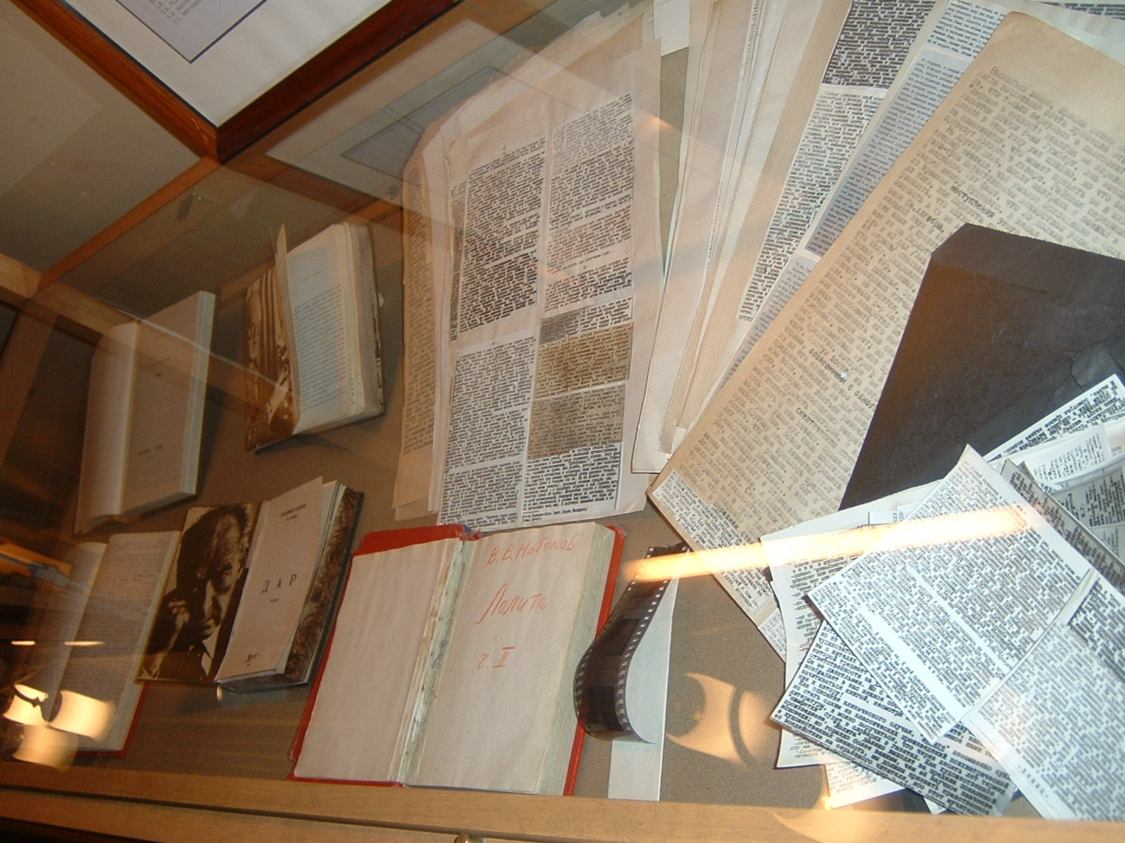 Samizadat copies of Vladimir Nabokov's works Colection of Nabokov House